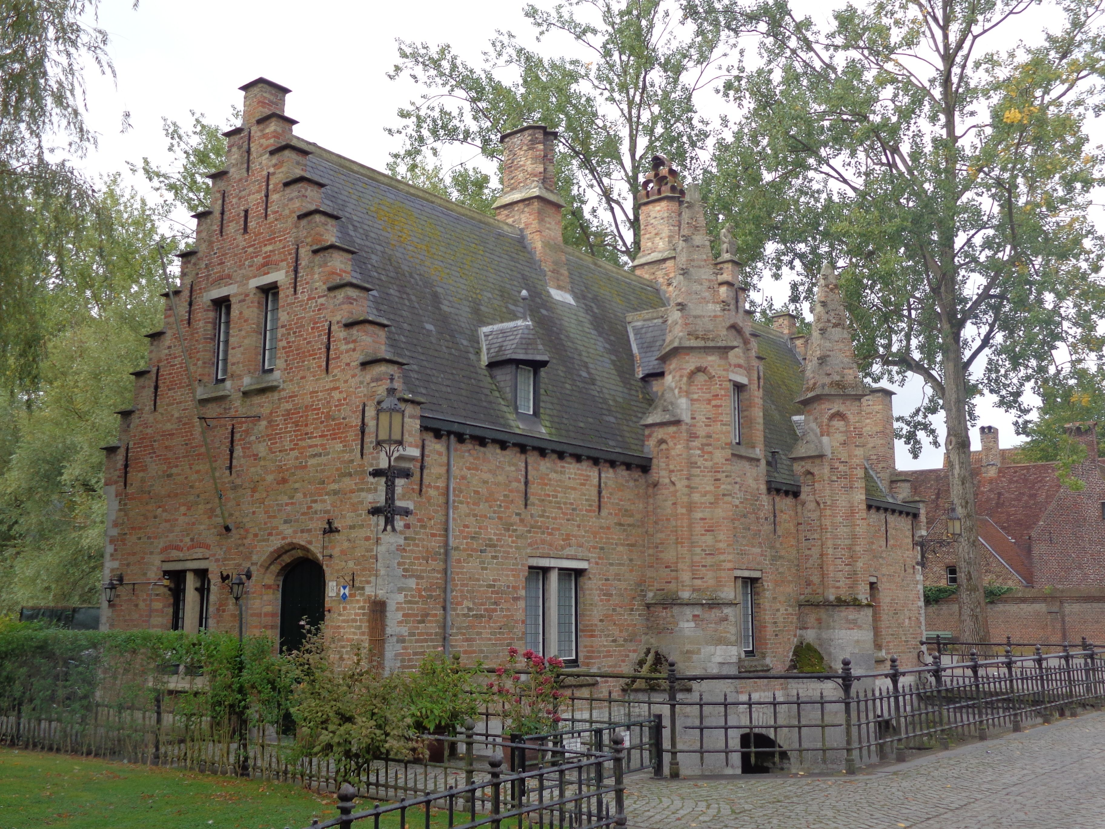 Minnewater (Bruges)